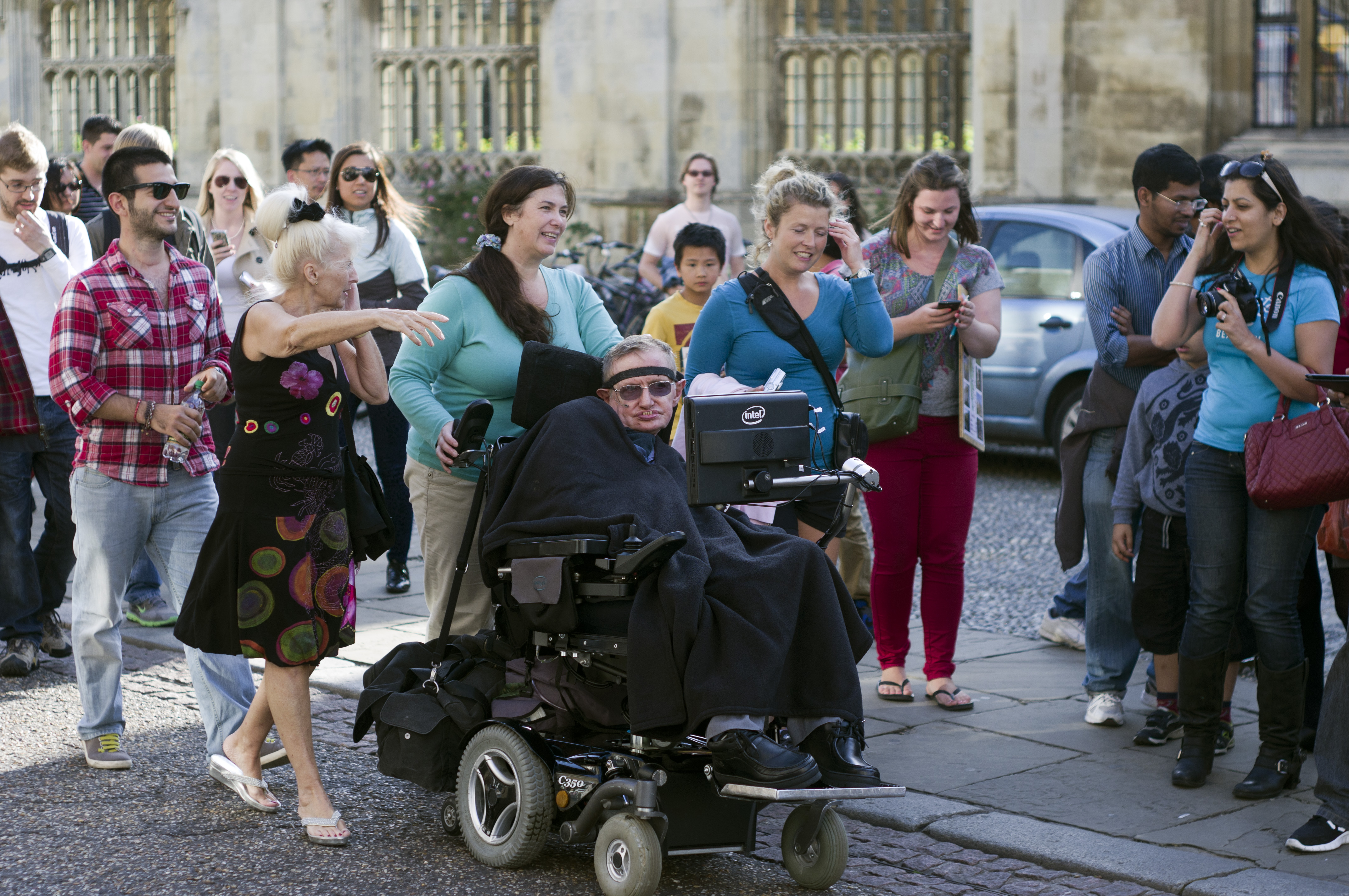 Dr. Stephen Hawking in Cambridge, United Kingdom.